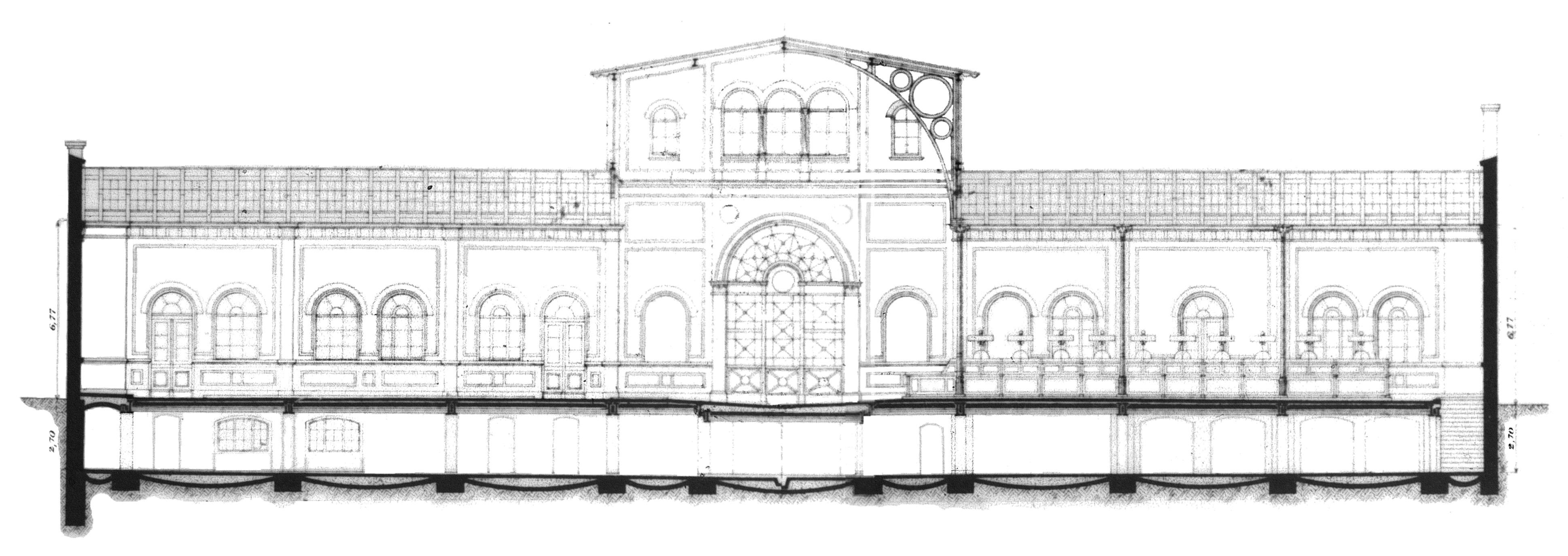 Berlin - market hall IV at Dorotheenstraße, section hall